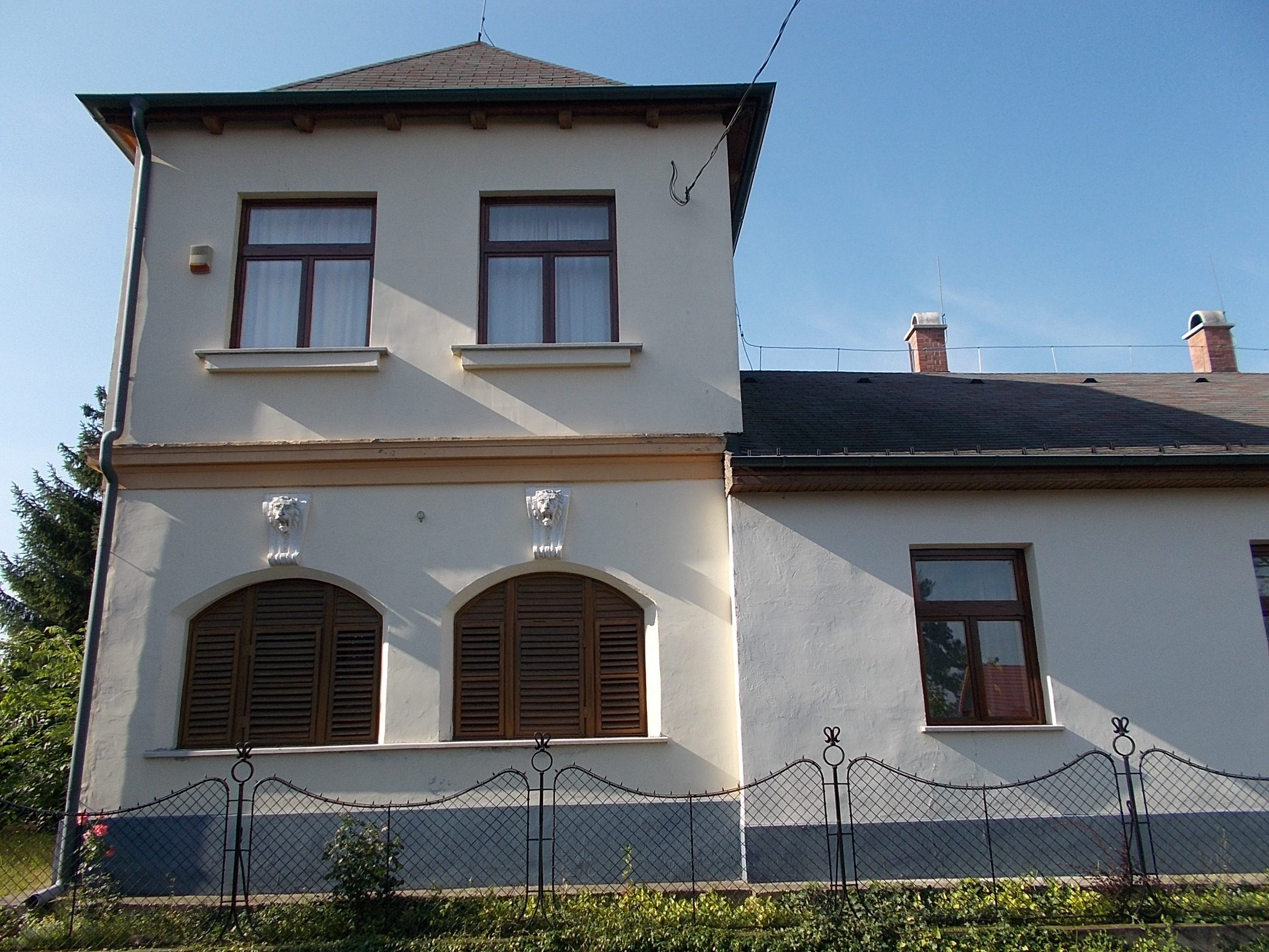 Kalocsai Kálmán volt lakóháza. ID -12348. - Gödöllő, Fenyvesi nagyút 82. This is a photo of a monument in Hungary, Identifier: -12348